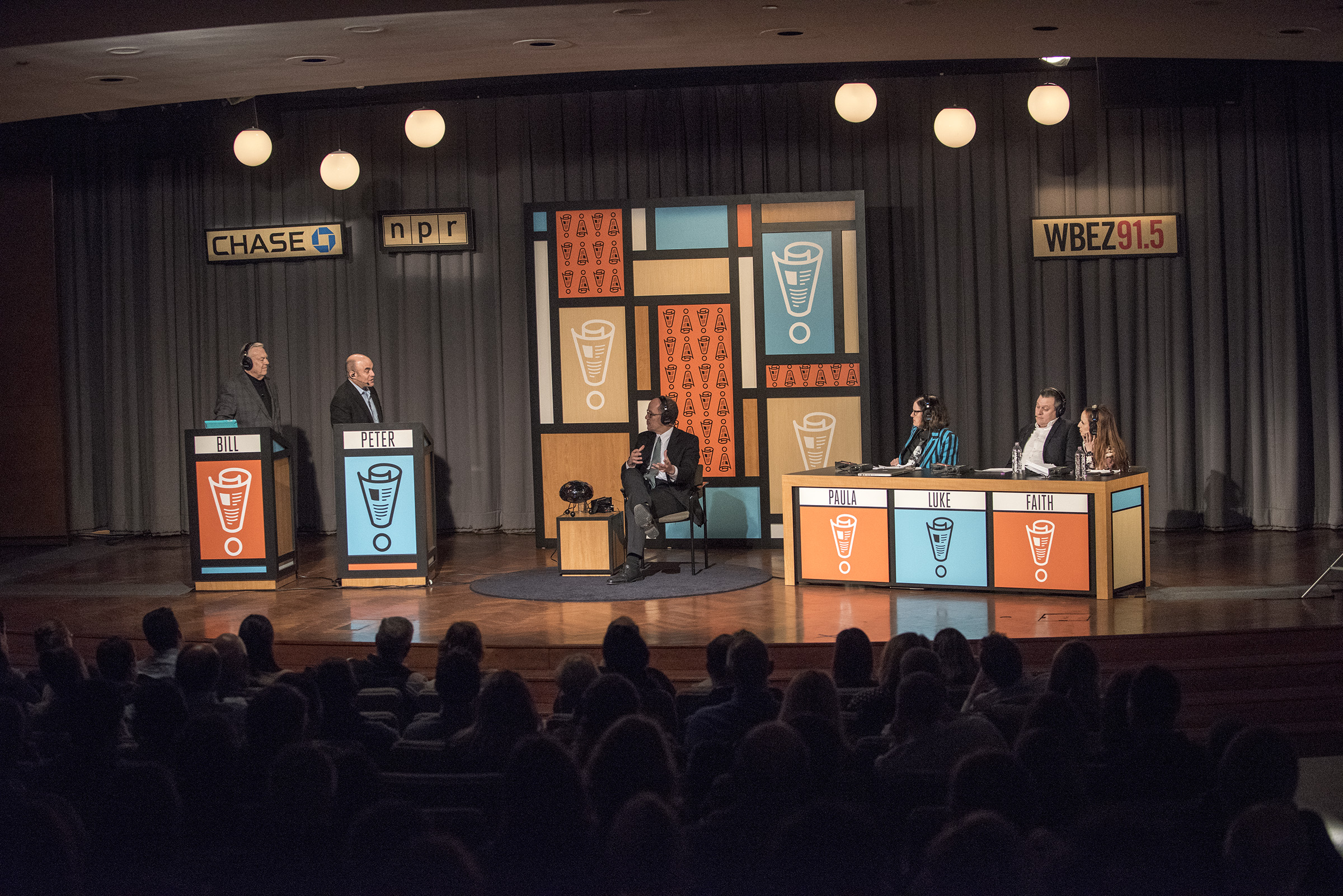 Secretary of Labor Thomas E. Perez is the guest for the live taping of an episode of NPR’s “Wait, Wait Don’t Tell Me!” with approximately 350 audience members. He discussed his career, personal background, and work at the Department of Labor with host Peter Sagal, Bill Kurtis, Judge and Scorekeeper and Panelists, Paula Poundstone, Stand-up comedian, Faith Salie, Author/Host of Science Goes to the Movies, City University of New York and Luke Burbank, Host, Live Wire Radio and participated in the show’s “Not My Job” segment.